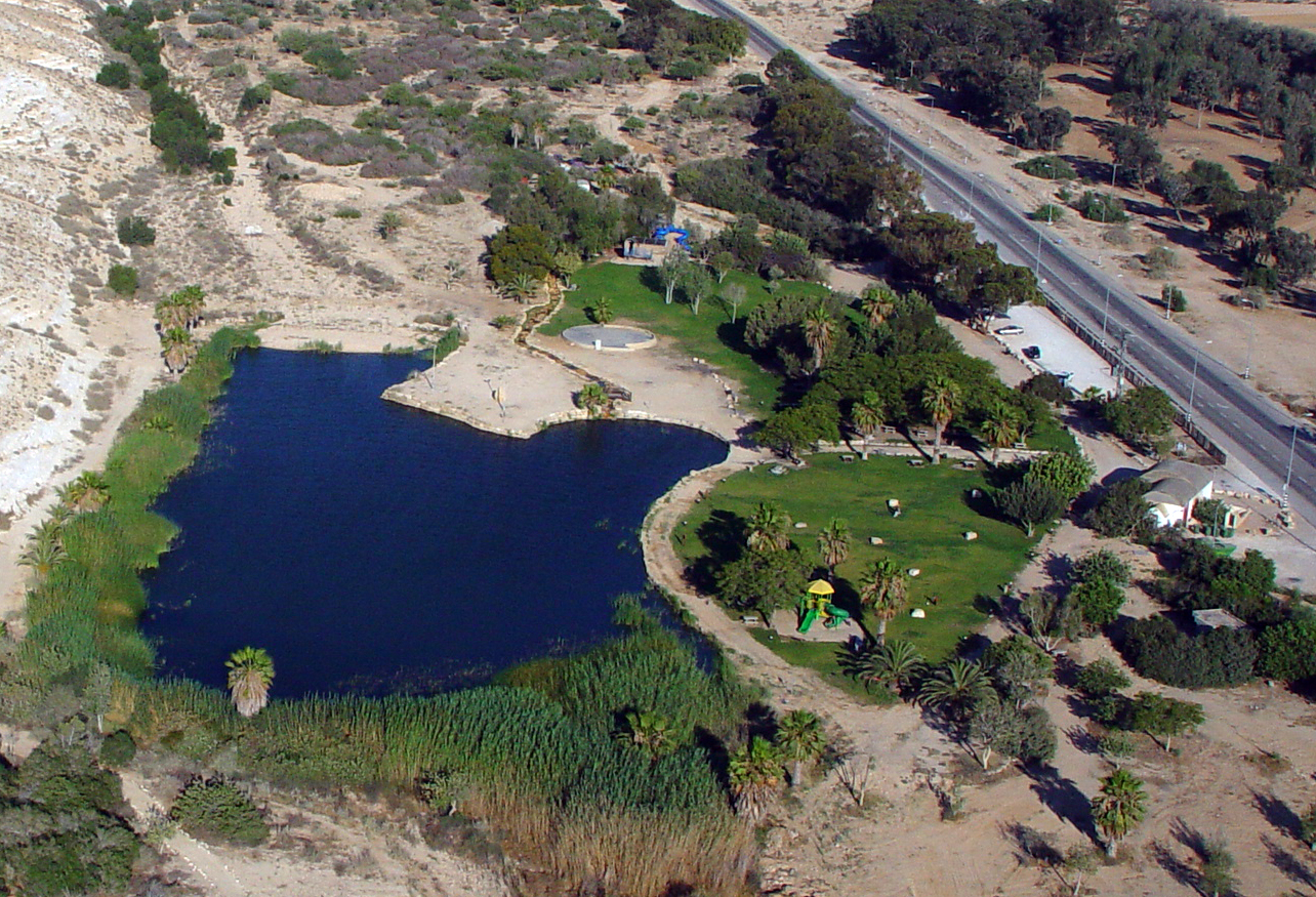 Aerial view of Golda Park in the Negev (Israel)